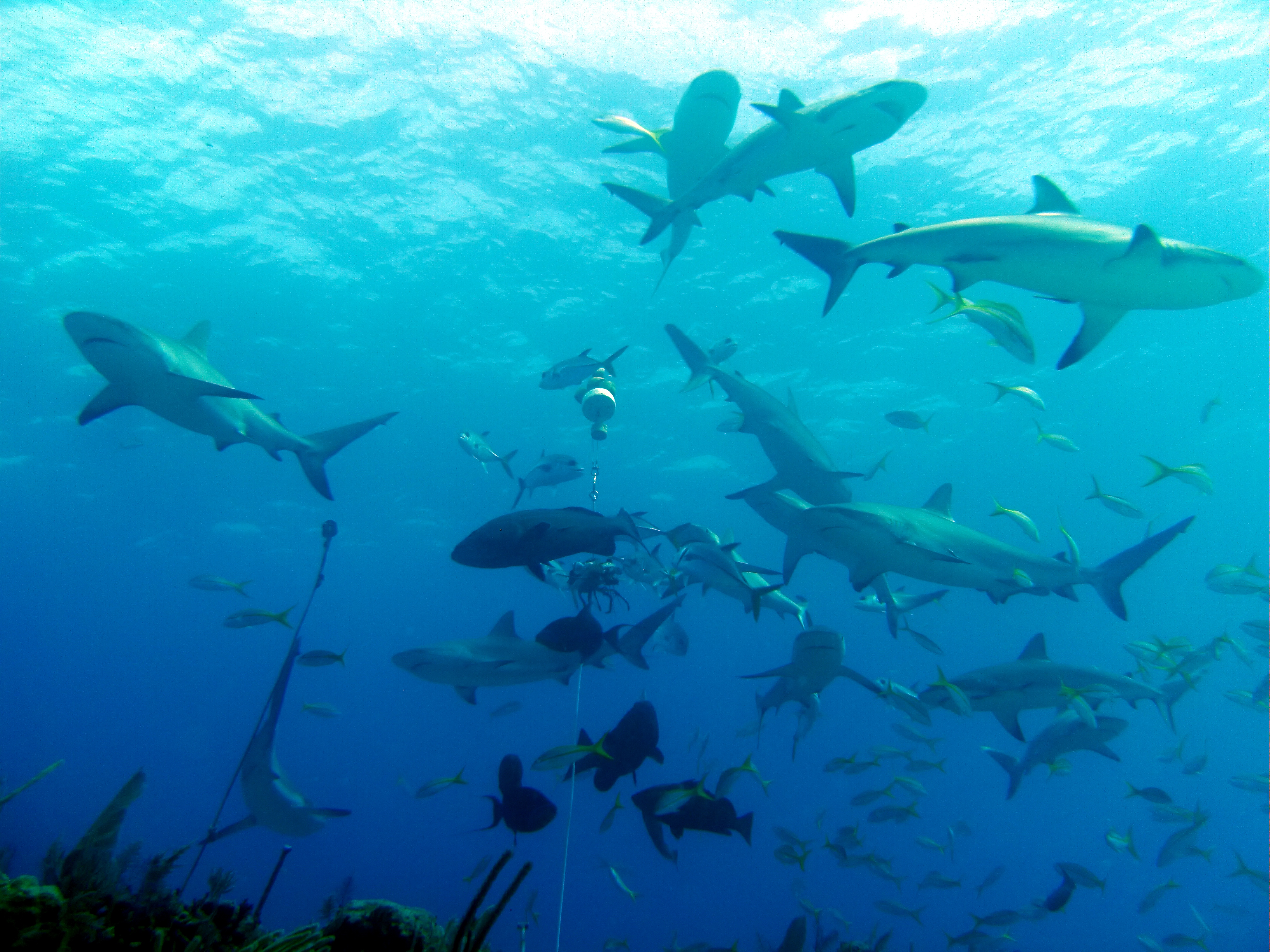 Caribbean reef sharks, goliath grouper and Nassau grouper attacking a bait ball, Bahamas.